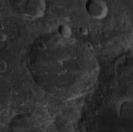 Oblique view of Lyapunov, on the far side of the moon. North is at top.